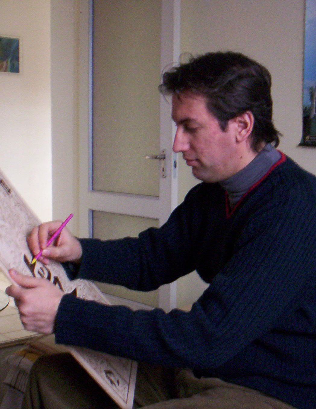 Párvusz, a Hungarian graphic artist.